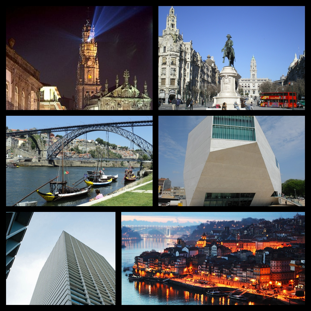 Clockwise from the upper left corner: Clérigos Church and Tower; Praça da Liberdade and Avenida dos Aliados; Casa da Música concert hall; Ribeira district; office buildings on Avenida da Boavista; Luiz I bridge and Porto from Vila Nova de Gaia.